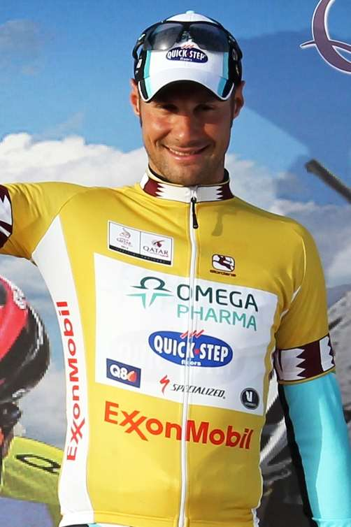 Belgian rider Tom Boonen poses with the Tour of Qatar yellow jersey as Qatar Cycling Federation president Sheikh Khalid bin Ali Al Thani applauds.